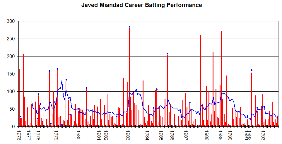 This graph details the Test Match performance of Javed Miandad. It was created by Raven4x4x. The red bars indicate the player's test match innings, while the blue line shows the average of the ten most recent innings at that point. Note that this average cannot be calculated for the first nine innings. The blue dots indicate innings in which Miandad finished not-out. This graph was generated with Microsoft Excel 2002, using data from Cricinfo and .au.